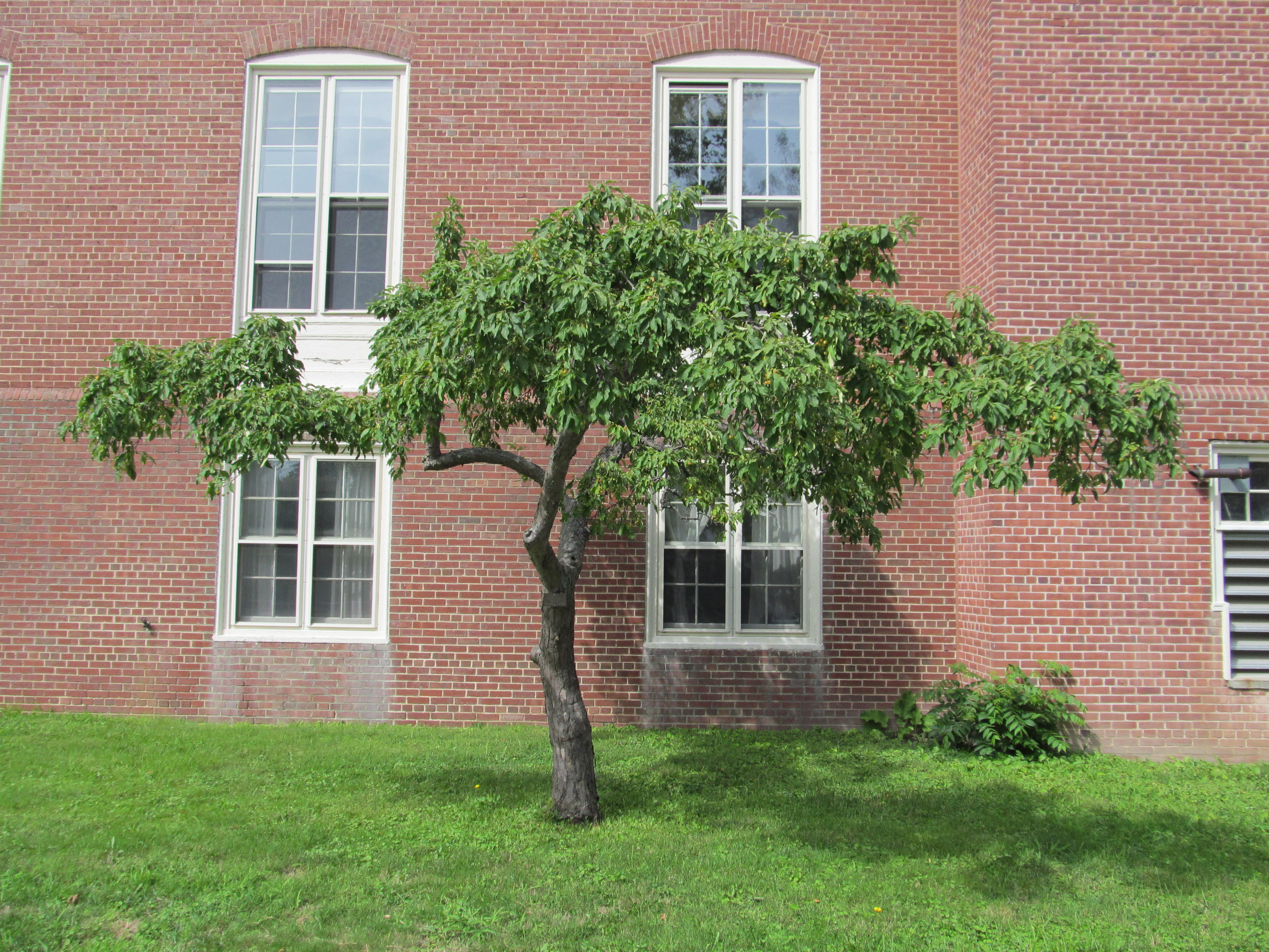 Flowering Crabapple, Mount Holyoke College, South Hadley Massachusetts